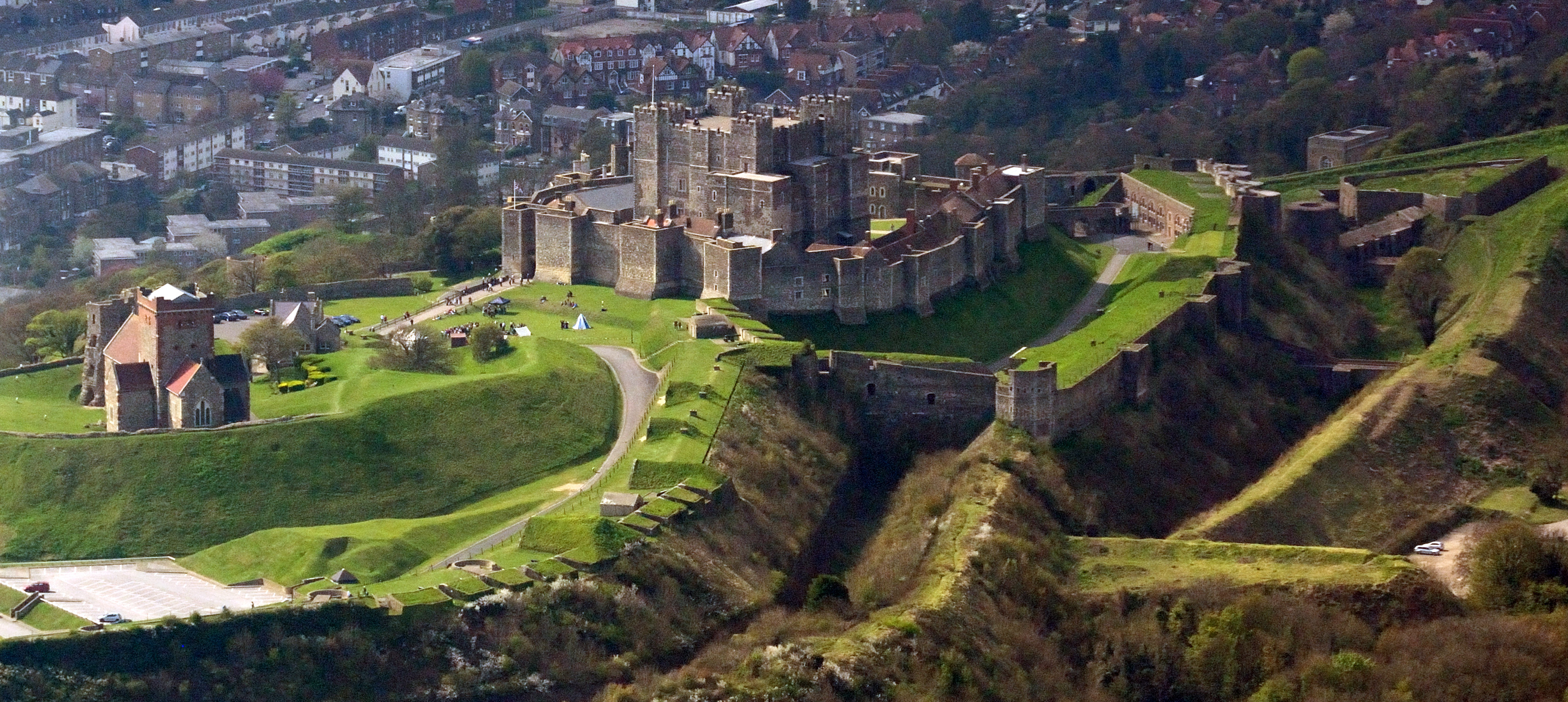 Aerial view of Dover Castle, Kent (England). The separate buildings to the left of the castle are the church of Saint Mary in Castro and (behind it) the Roman pharos. Nikon D60 f=135mm f/9 at 1/1250s ISO 800. Processed using Nikon ViewNX 1.5.2 and GIMP 2.6.6.